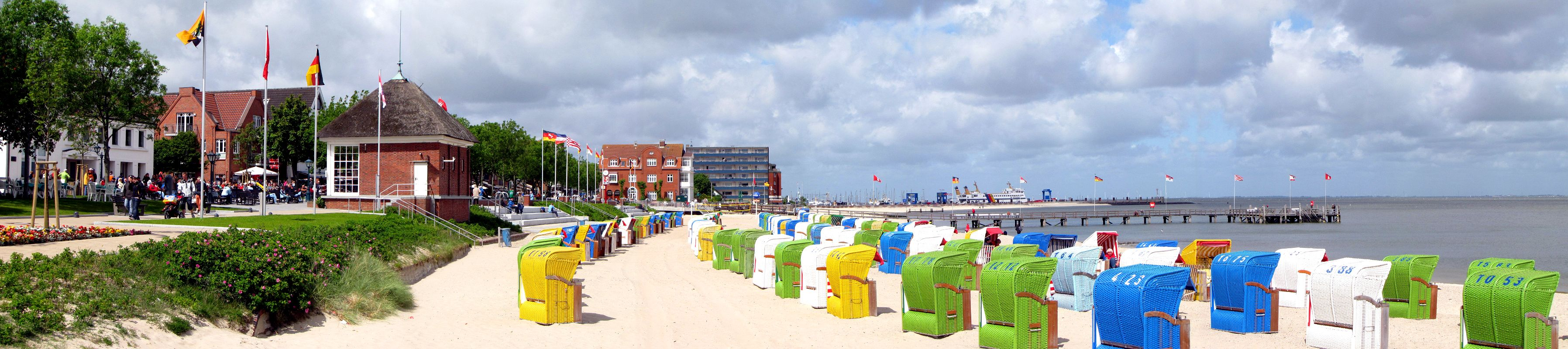 Germany / North Sea / Island Föhr: beach of Wyk